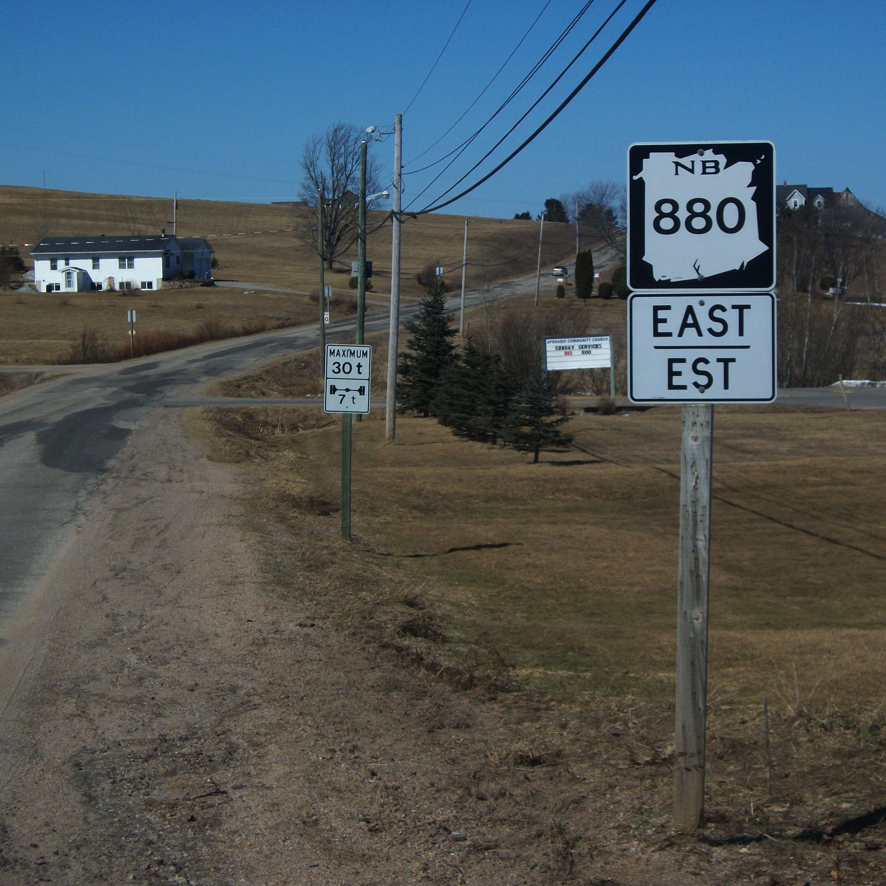 Rural highway in Kings County, New Brunswick, Canada